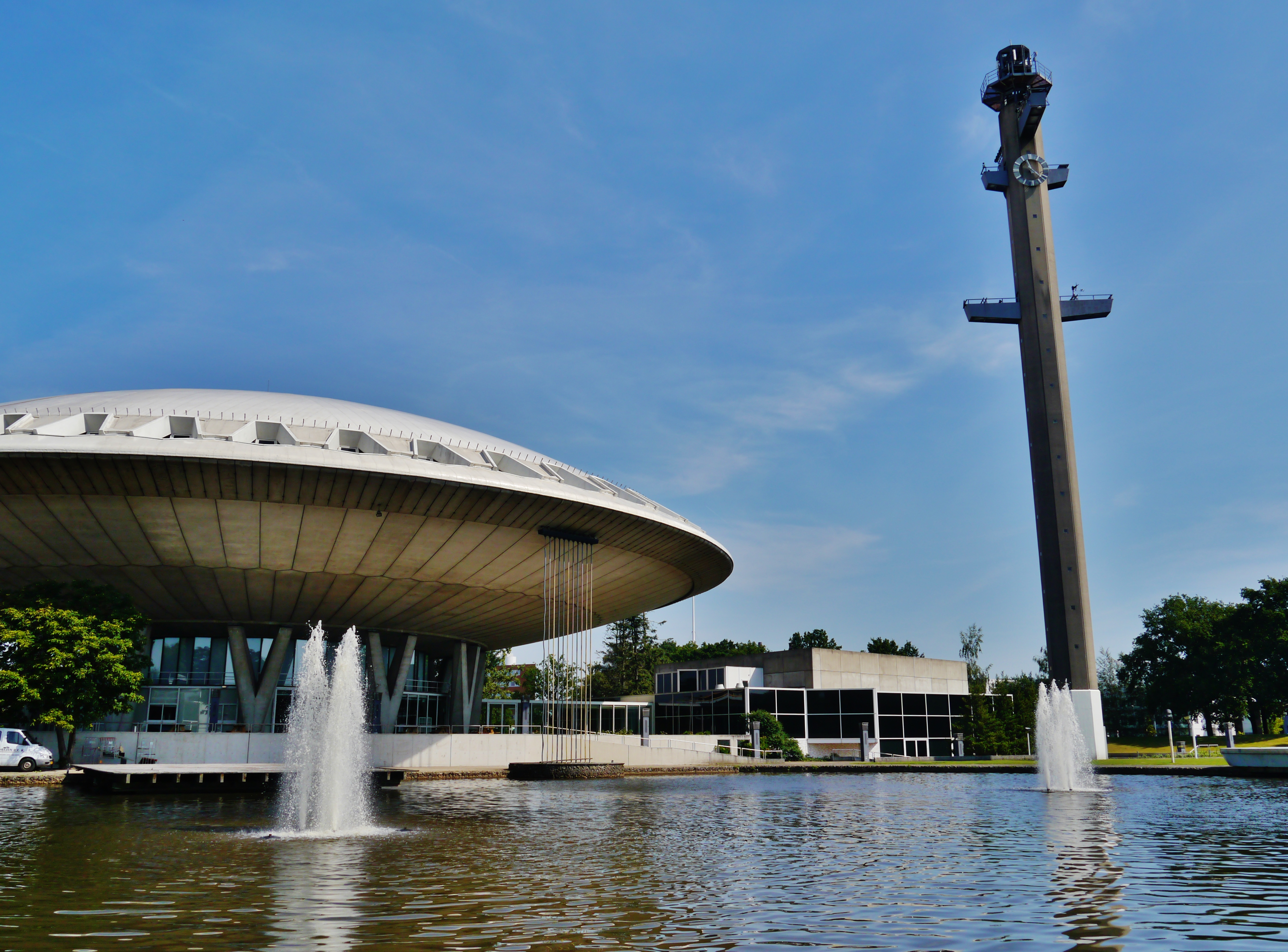 Evoluon, Eindhoven, Province of North Brabant, Netherlands